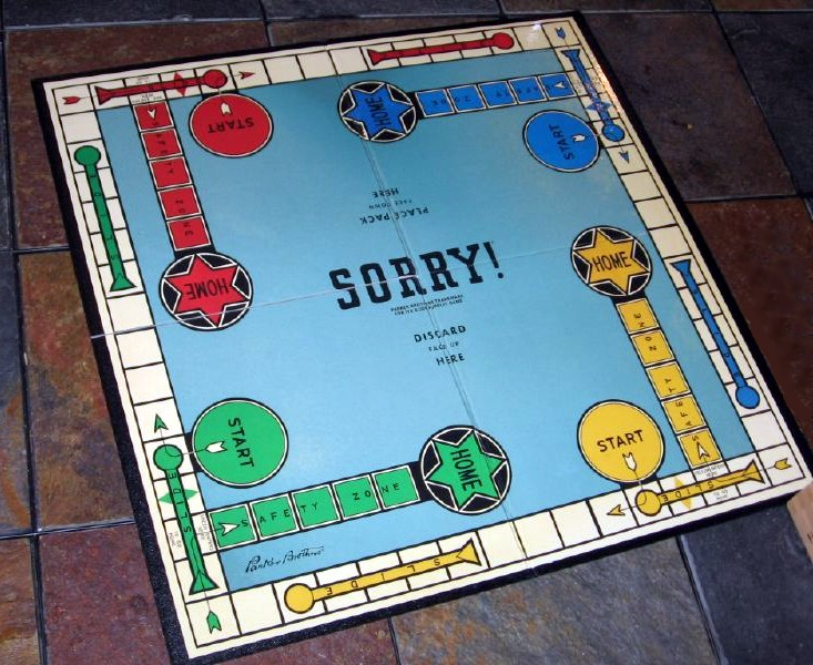 Older Sorry! board game, showing the now-removed diamond squares.